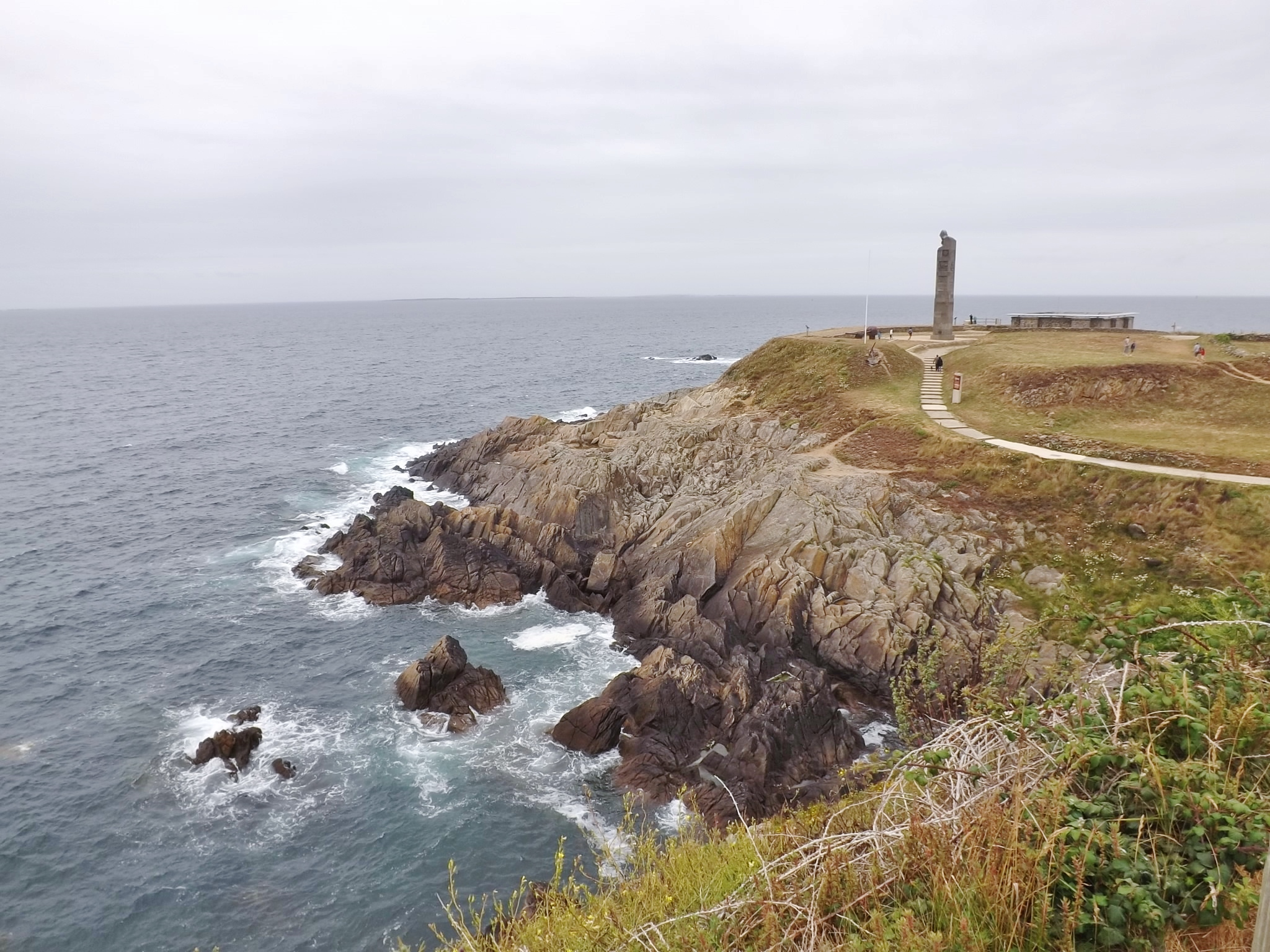 Sight of the pointe Saint-Mathieu headland, with visible the cenotaph (Memorial to sailors who have died for France), in Finistère, France.